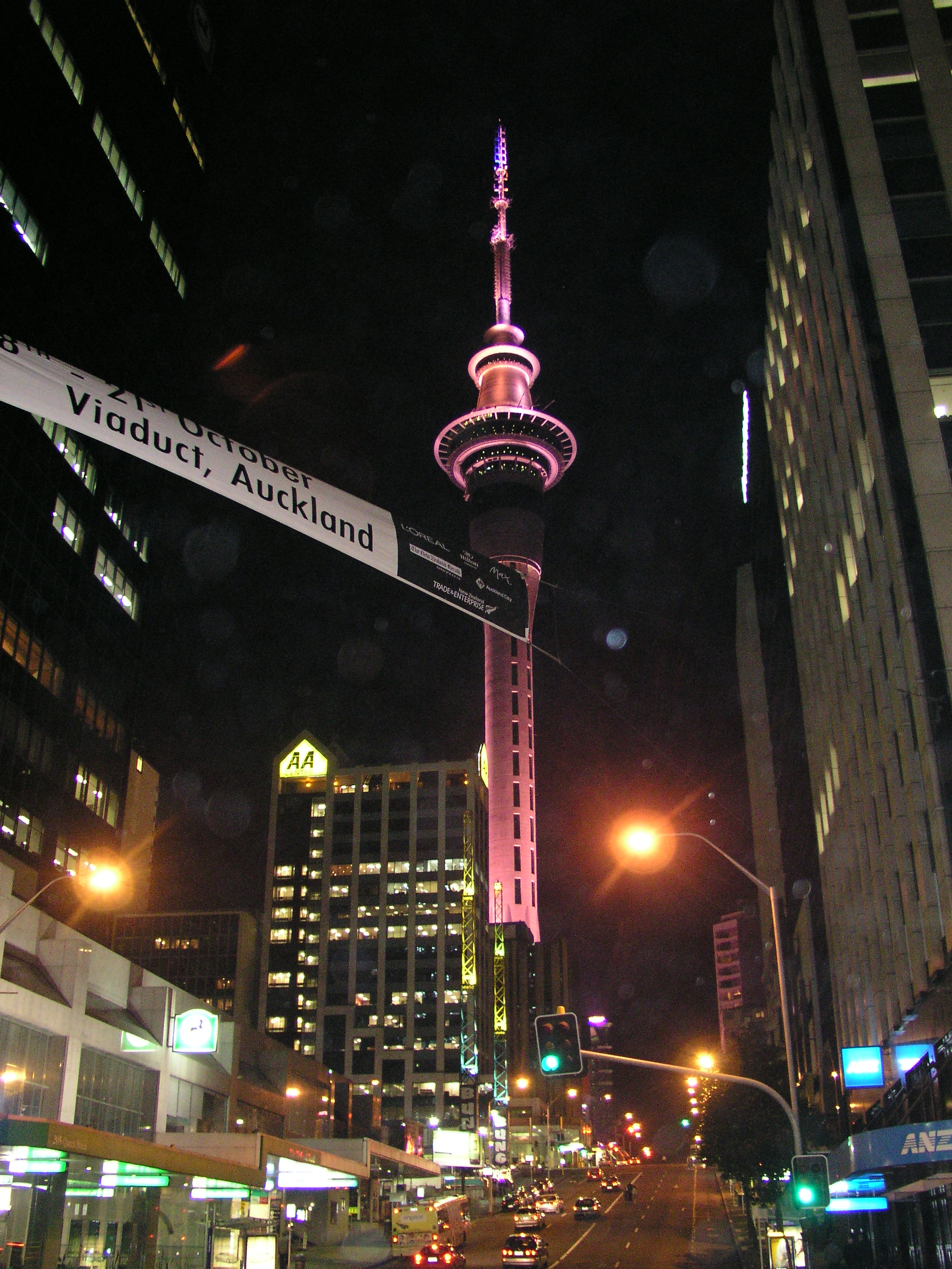 Auckland Skytower